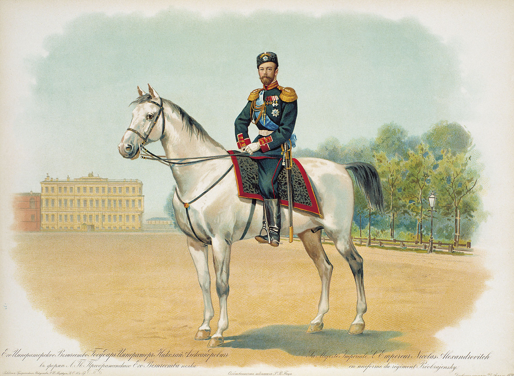 Nikolay II in Uniform of Preobrazhensky Guard Regiment.